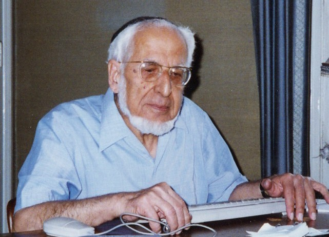 Prof. Charles Touati